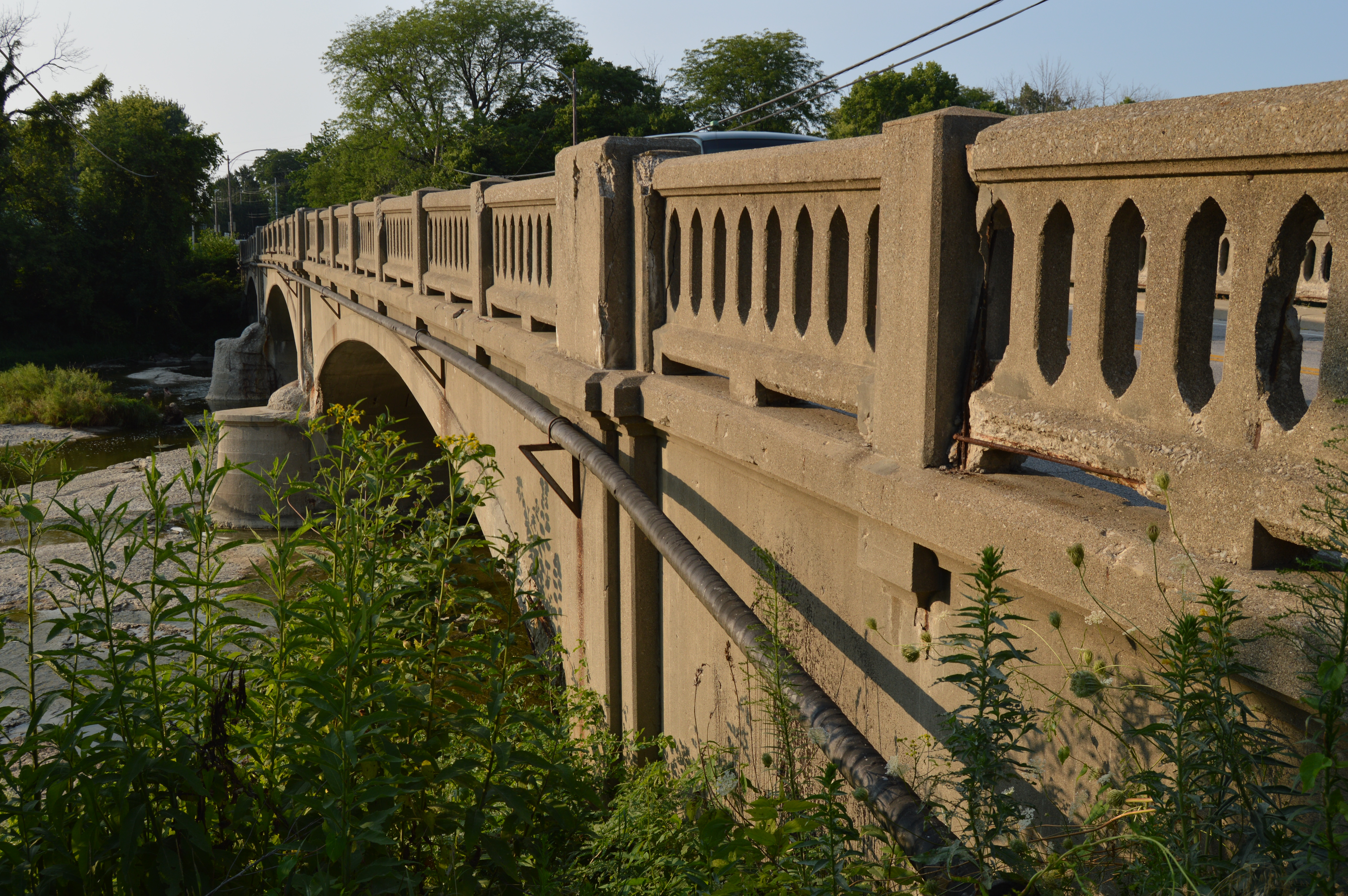 Western (upstream) side of the Ohio State Route 51 Bridge over the Portage River, which carries State Route 51 over the Portage River in Elmore, Ohio, United States. Built in 1926, it is listed on the National Register of Historic Places.